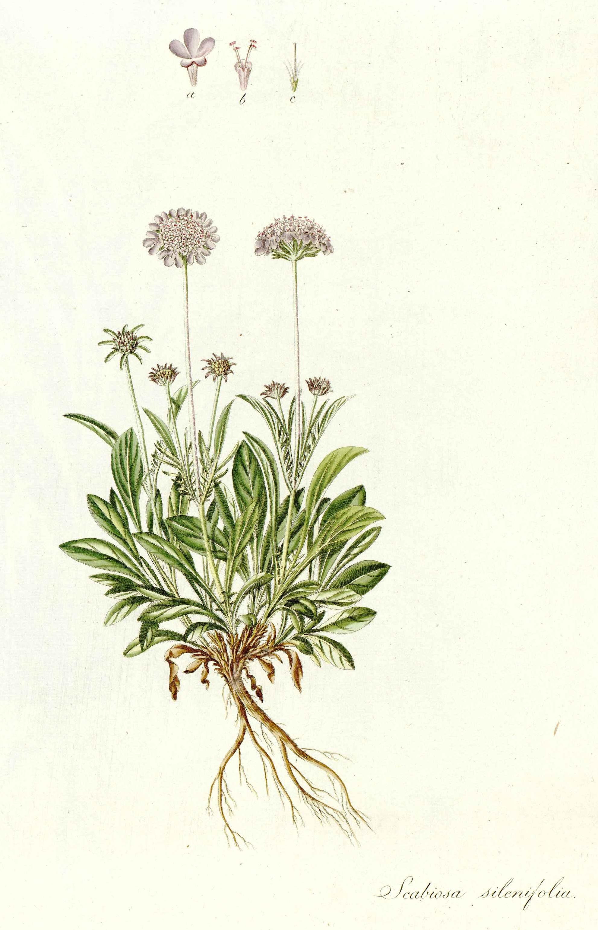 Scabiosa silenifolia Waldst & Kit